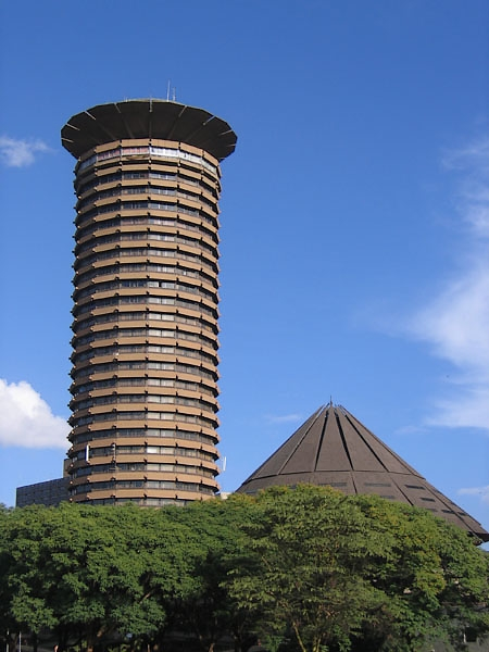 Kenyatta Intl. Conference Centre, Nairobi, Kenya